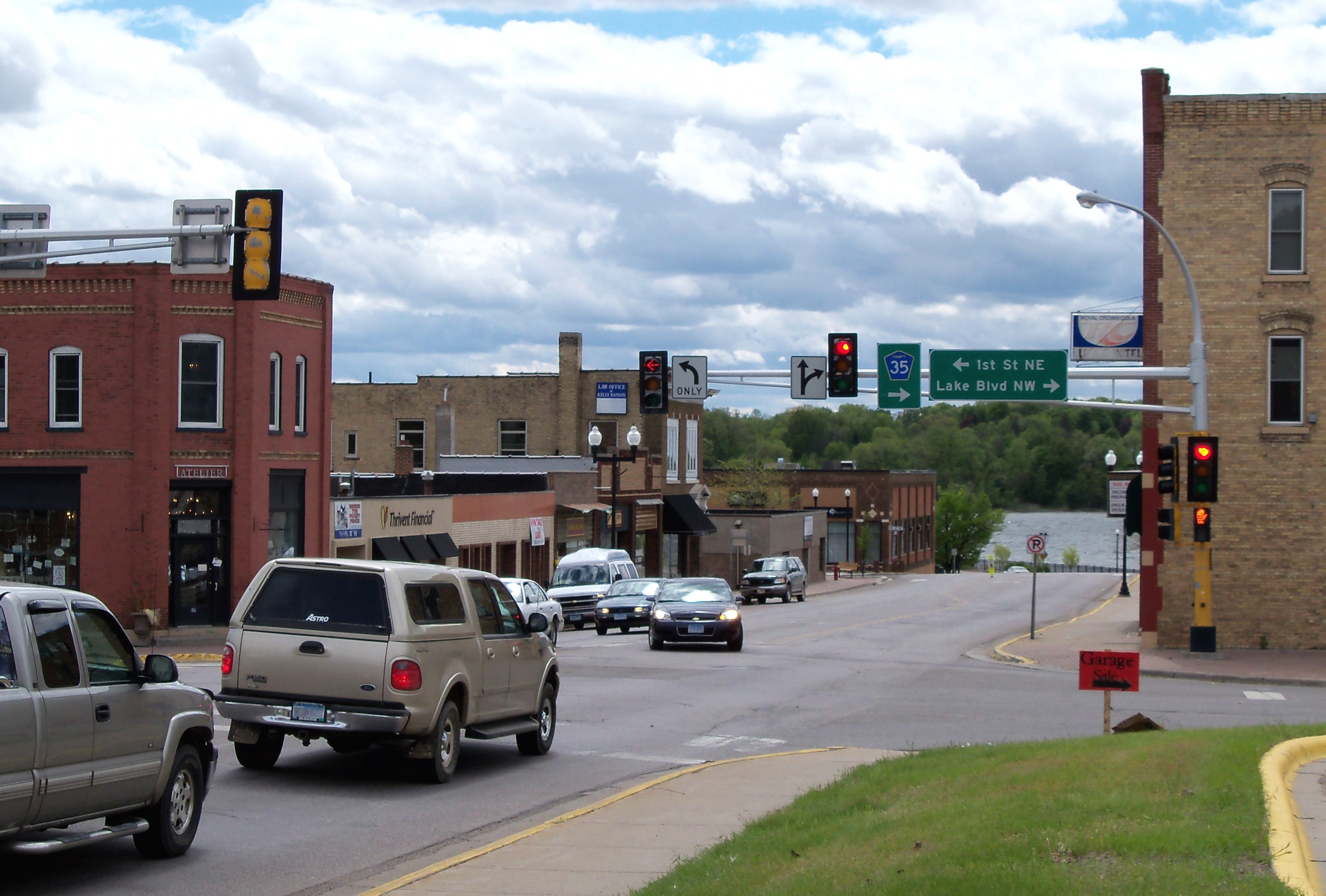 Downtown Buffalo, Minnesota, USA.